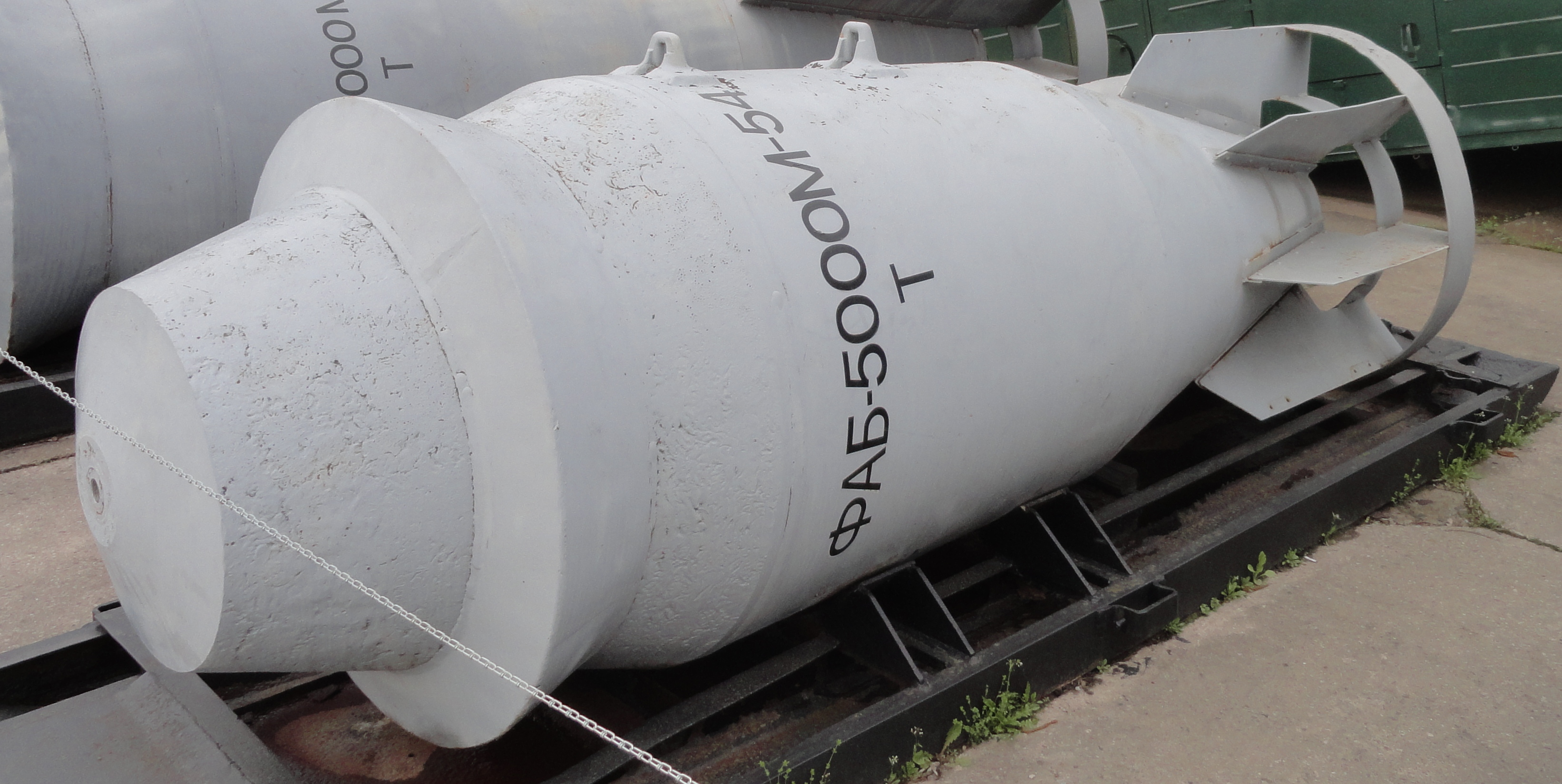 Soviet aircraft bomb FAB - 5000M - 54 . Aviation Museum in Kiev.